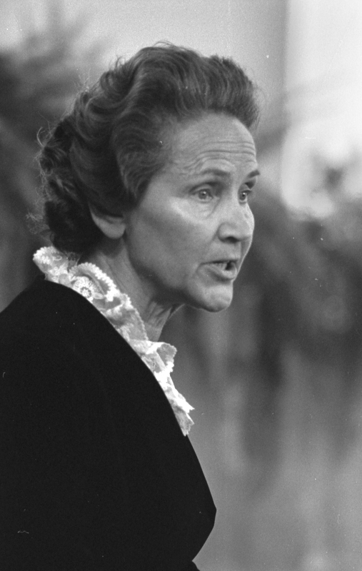 Information added by Wikimedia users.